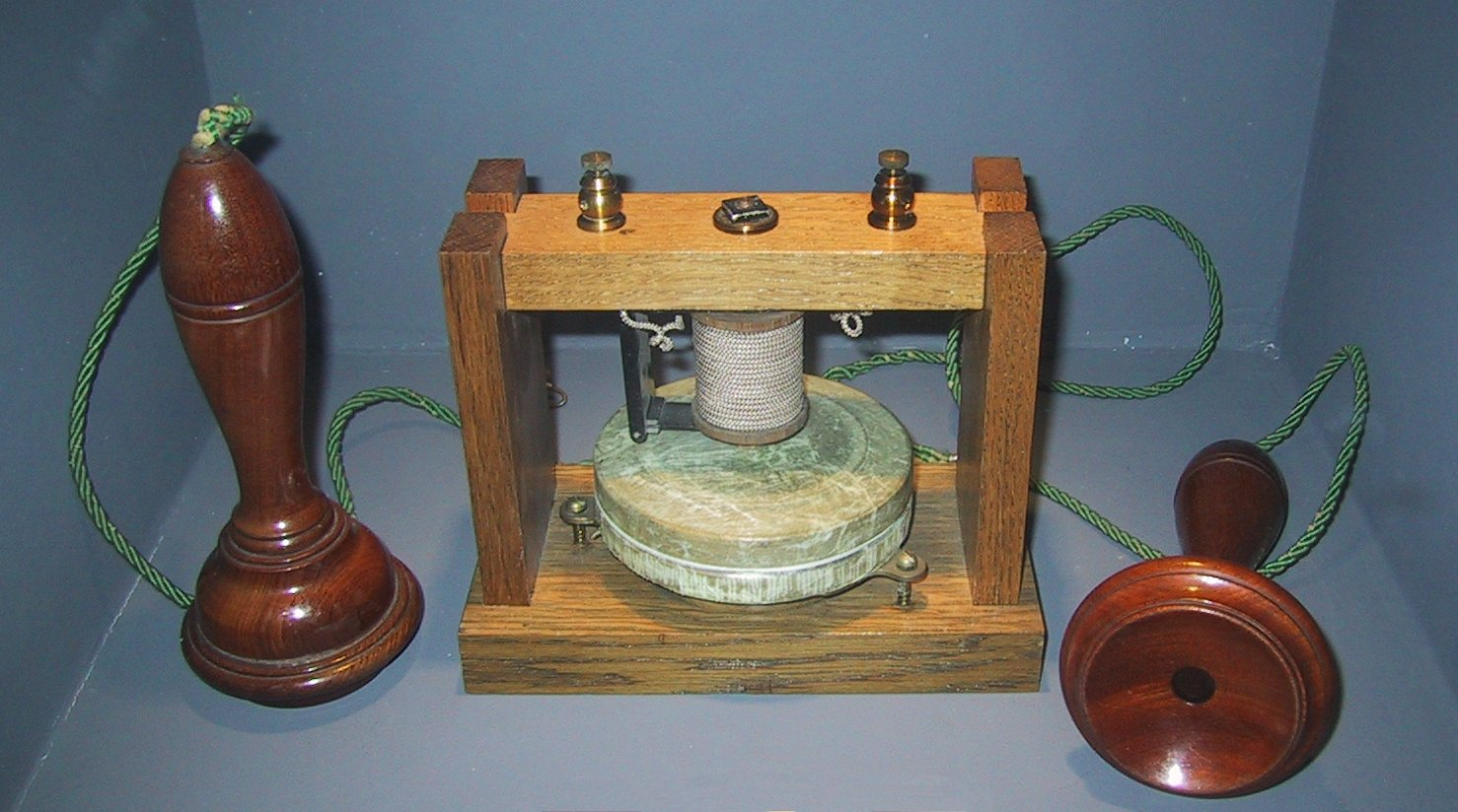 Model of first telephone receiver/transmitter invented by US scientist Alexander Graham Bell in 1875, in the historical collection of the Museum of Telecommunications in Pleumeur-Bodou, France. The instruments on either side are models of the receiver (earphone) invented by Bell later.